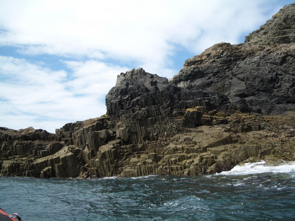 Columnar jointing in rhyolite near Porth Lleuog on the coast of Ramsey Island, Pembrokeshire, Wales, UK. Reminiscent of the Giant's Causeway formations. Source of infomation about this rhyolite: Geological Conservation Review Volume 17: Caledonian Igneous Rocks of Great Britain, Chapter 6: Wales and adjacent areas, Site: Aber Mawr to Porth Lleug (GCR ID: 284) (pdf)